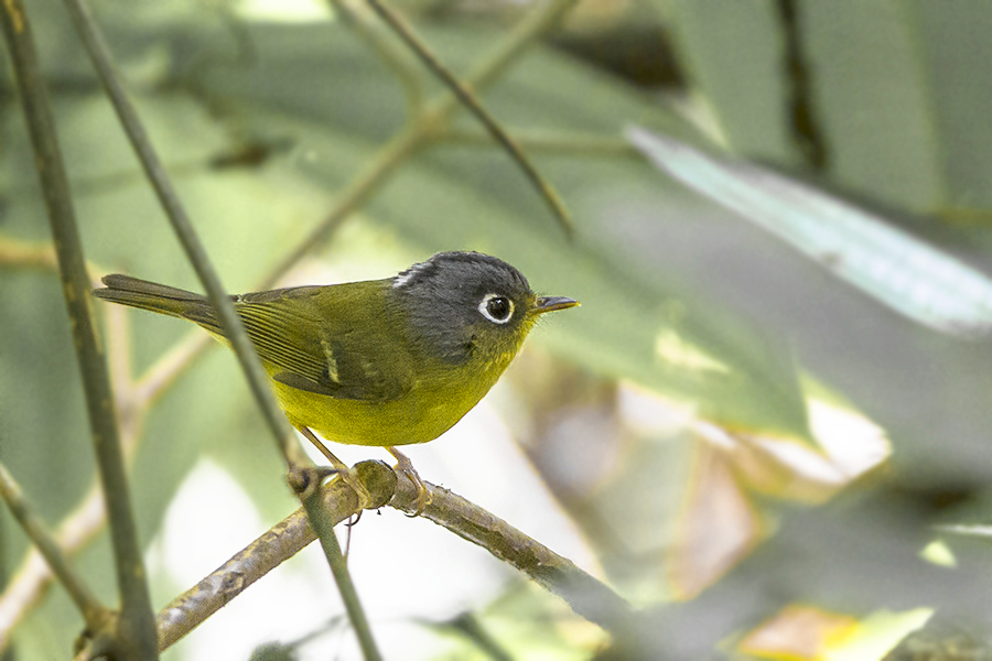 The specie Grey-cheeked Warbler had been photographed from Nimachen, Sikkim, India during the birding tour of GoingWild on 04.11.2014.